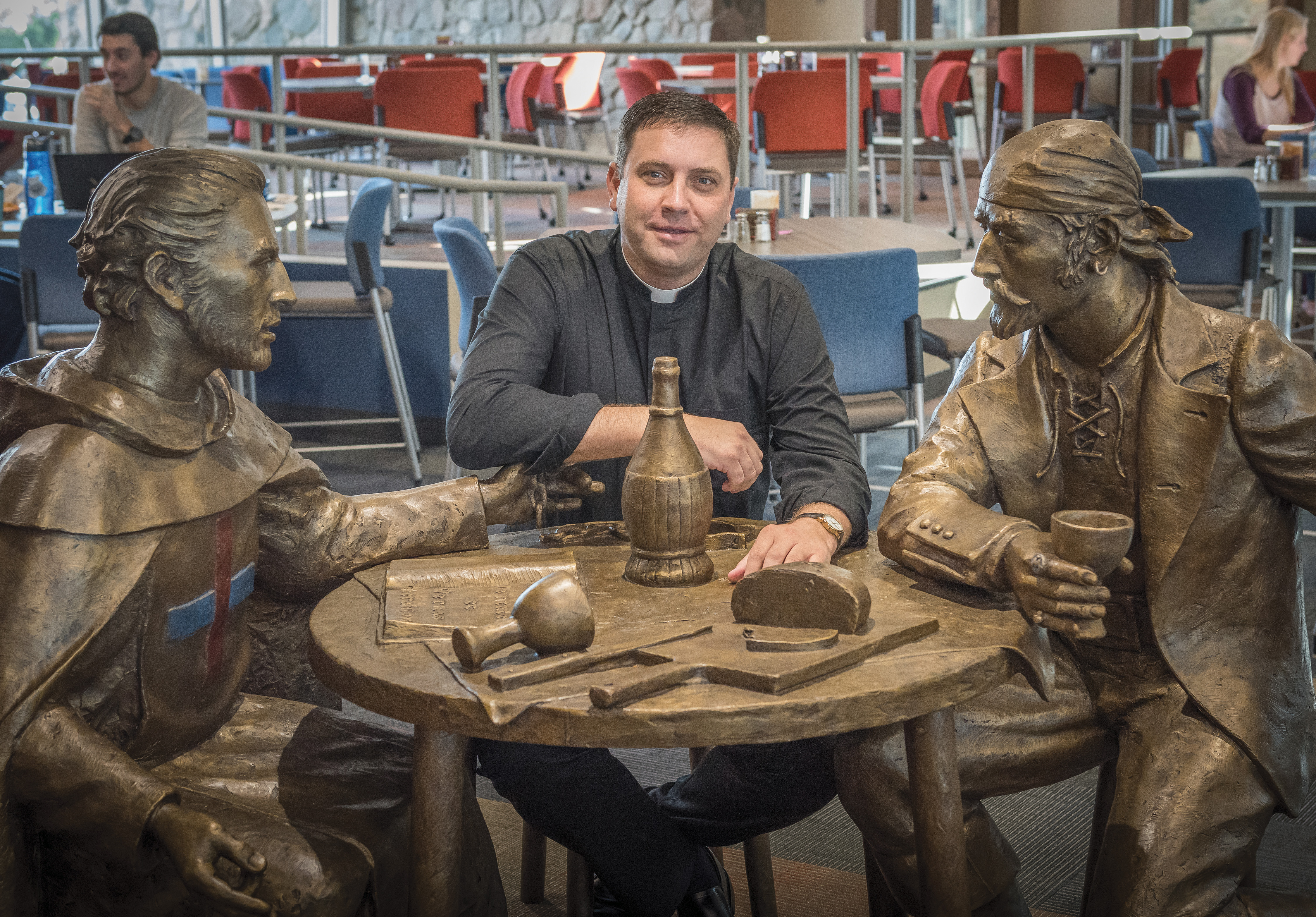 Msgr. James Shea, seated at the statue of the Monk and Marauder in the Crow's Nest